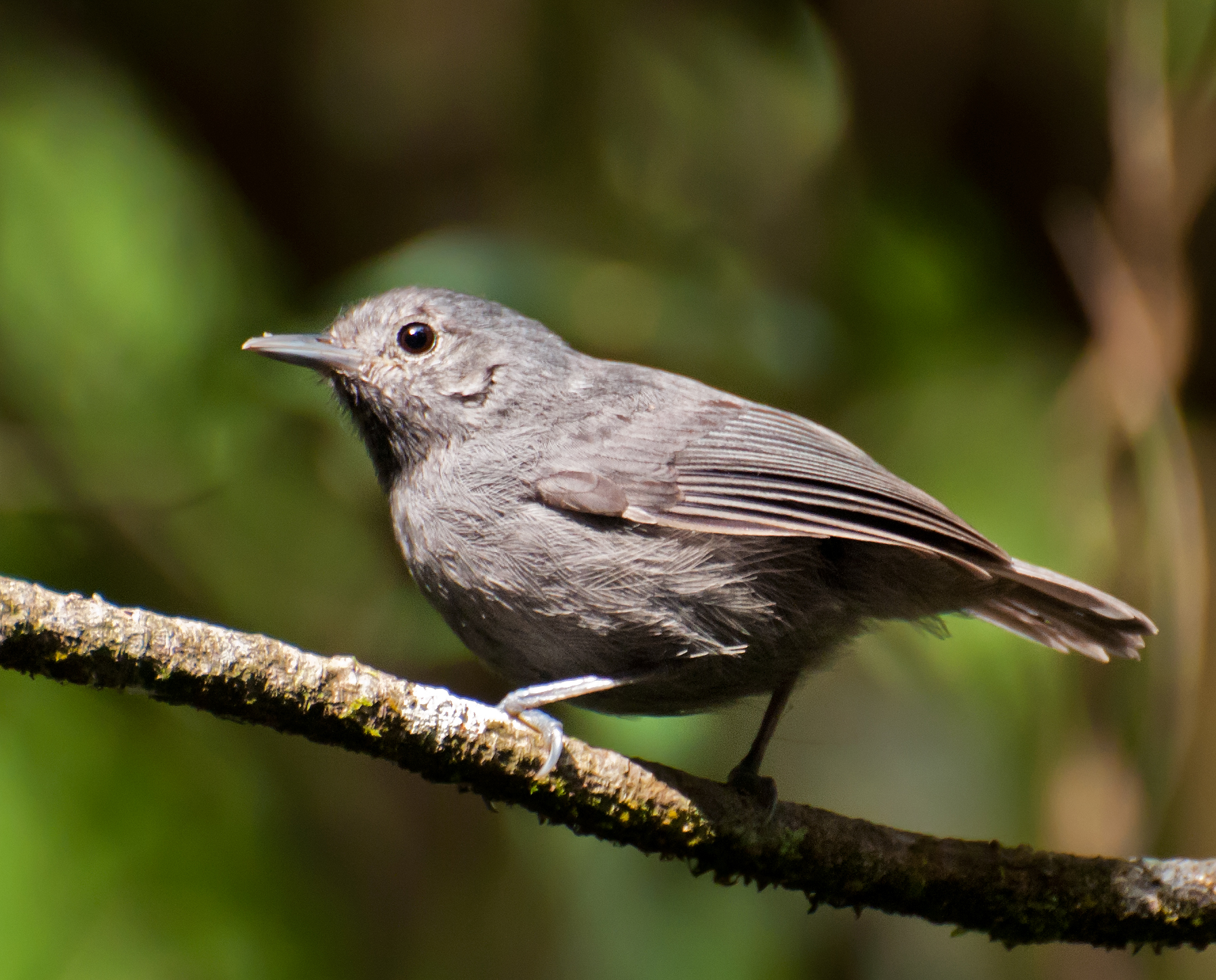 A male Unicolored Antwren in Vale do Ribeira, Registro, São Paulo, Brazil.